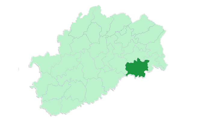 Canton of Villersexel